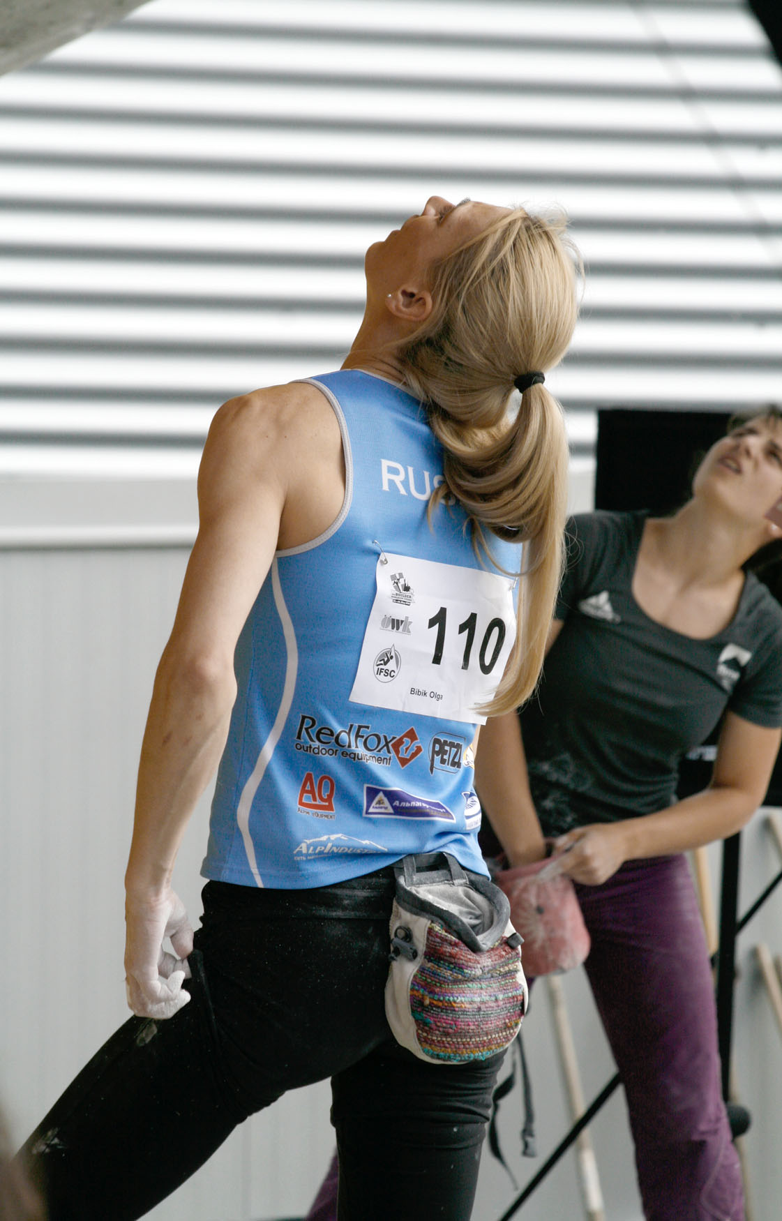 Olga Bibik (110) and Maud Ansade during qualifications at the IFSC Boulder Worldcup Vienna 2010.